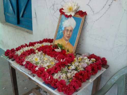 Teachers' Day Celebration at Madnahar Jr High School.